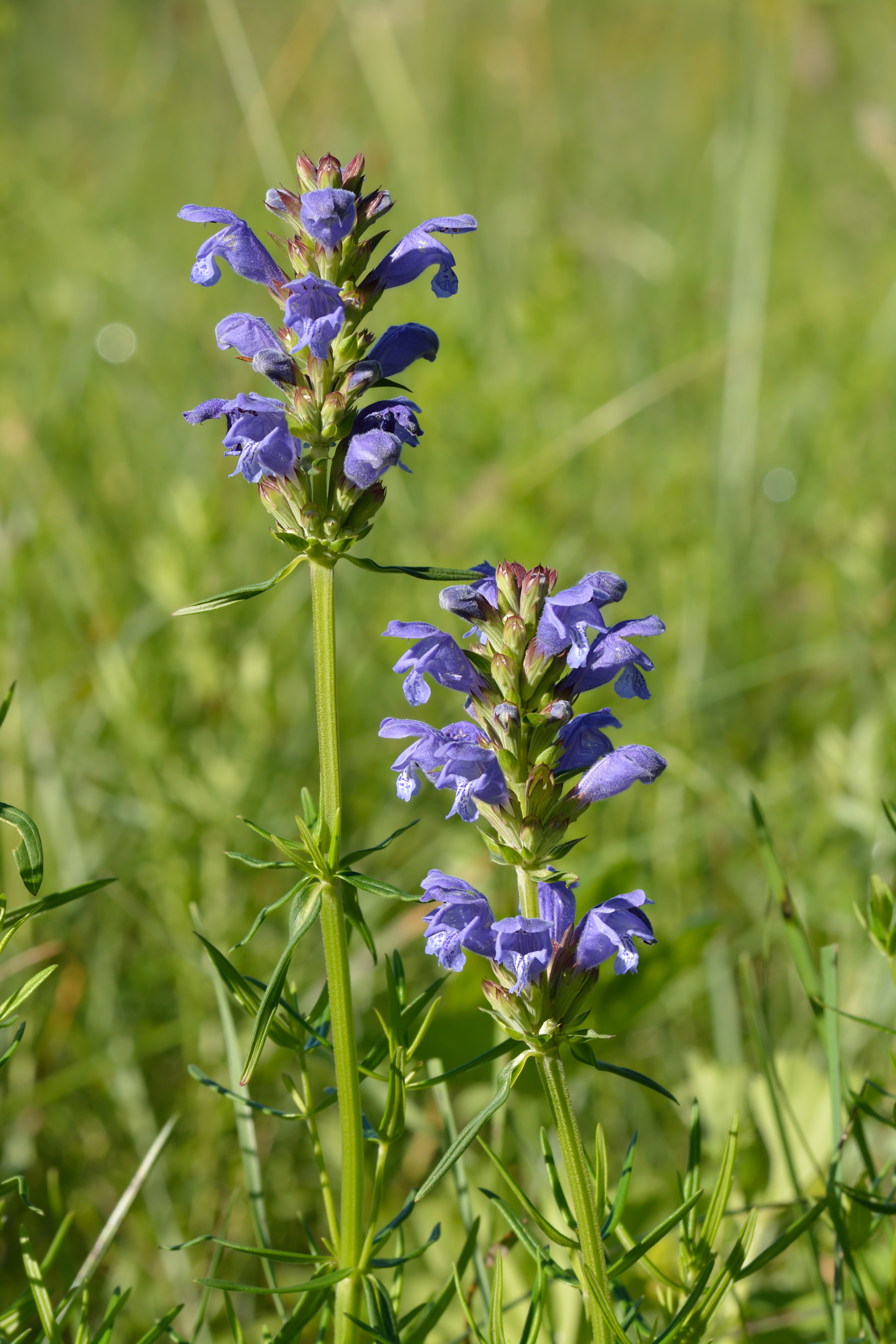 Northern Dragonhead (Dracocephalum ruyschiana), Keila, Northwestern Estonia. Keila, Northwestern Estonia. It belongs to the category II of protected species in the country and also it's included in the list of strictly protected plant species of the Bern Convention (1979).